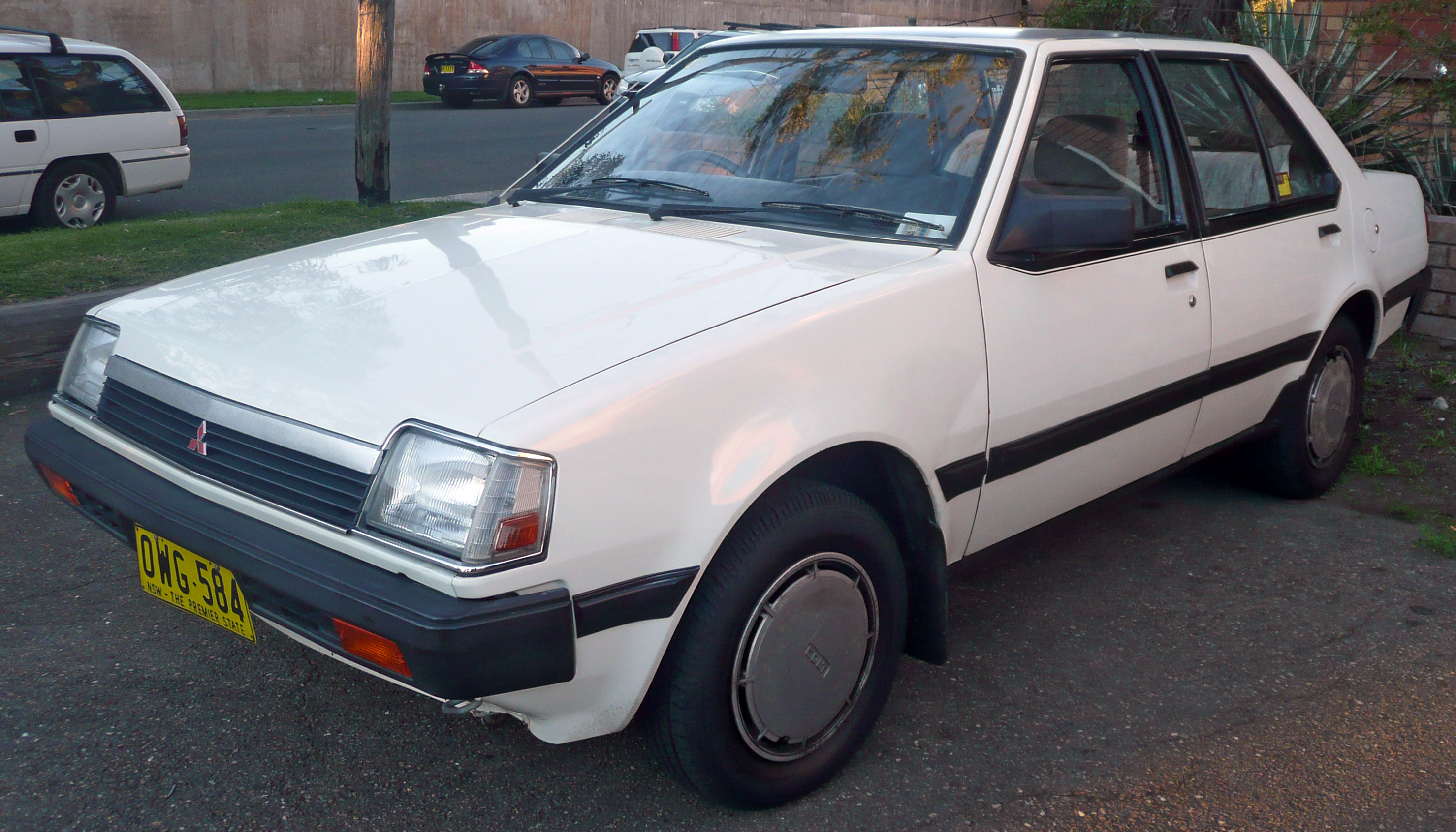 1987 Mitsubishi Colt (RD) GL sedan. Photographed in Sutherland, New South Wales, Australia.